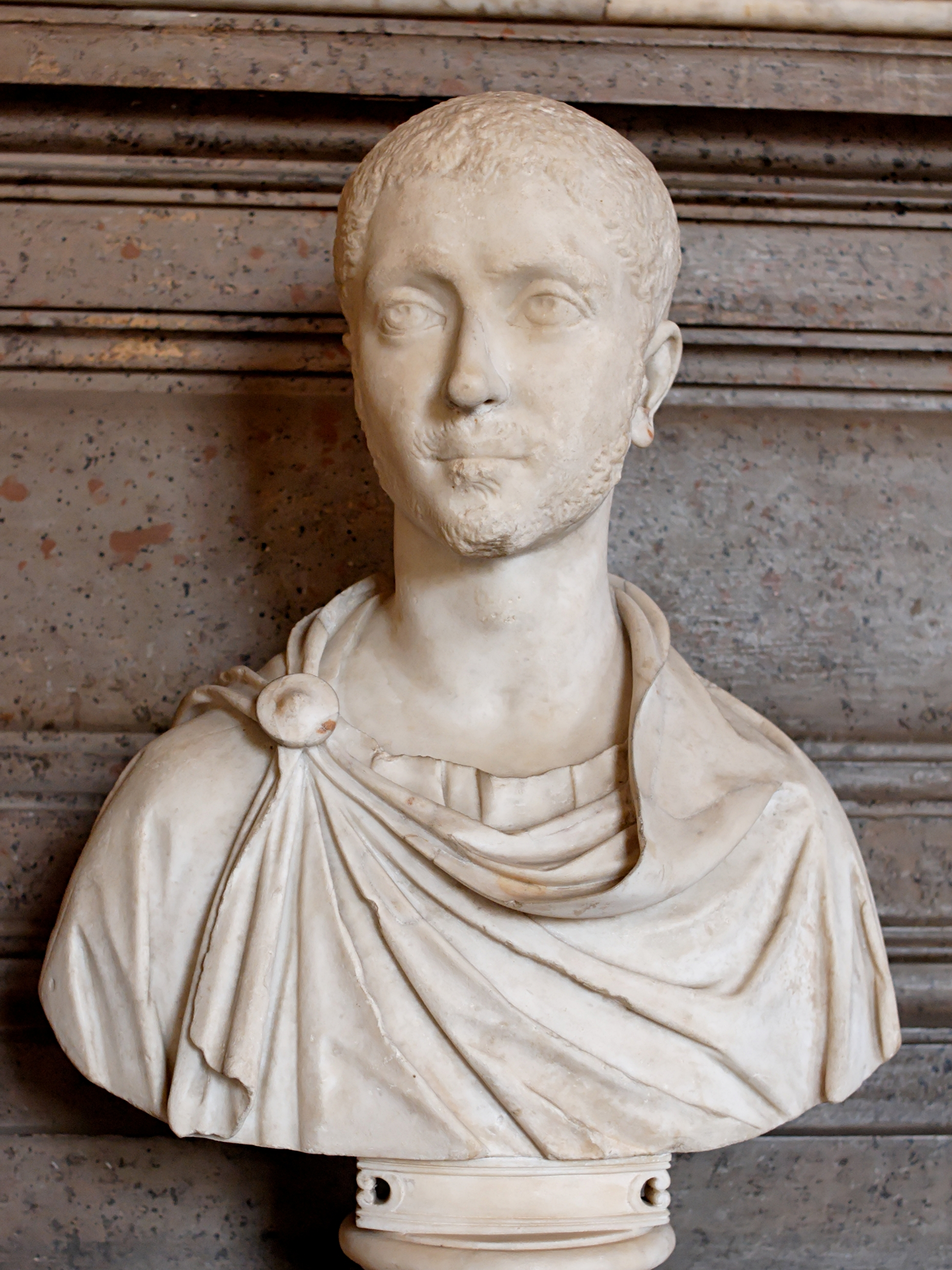 Portrait of Alexander Severus. Marble, Roman artwork, 222–235 CE.